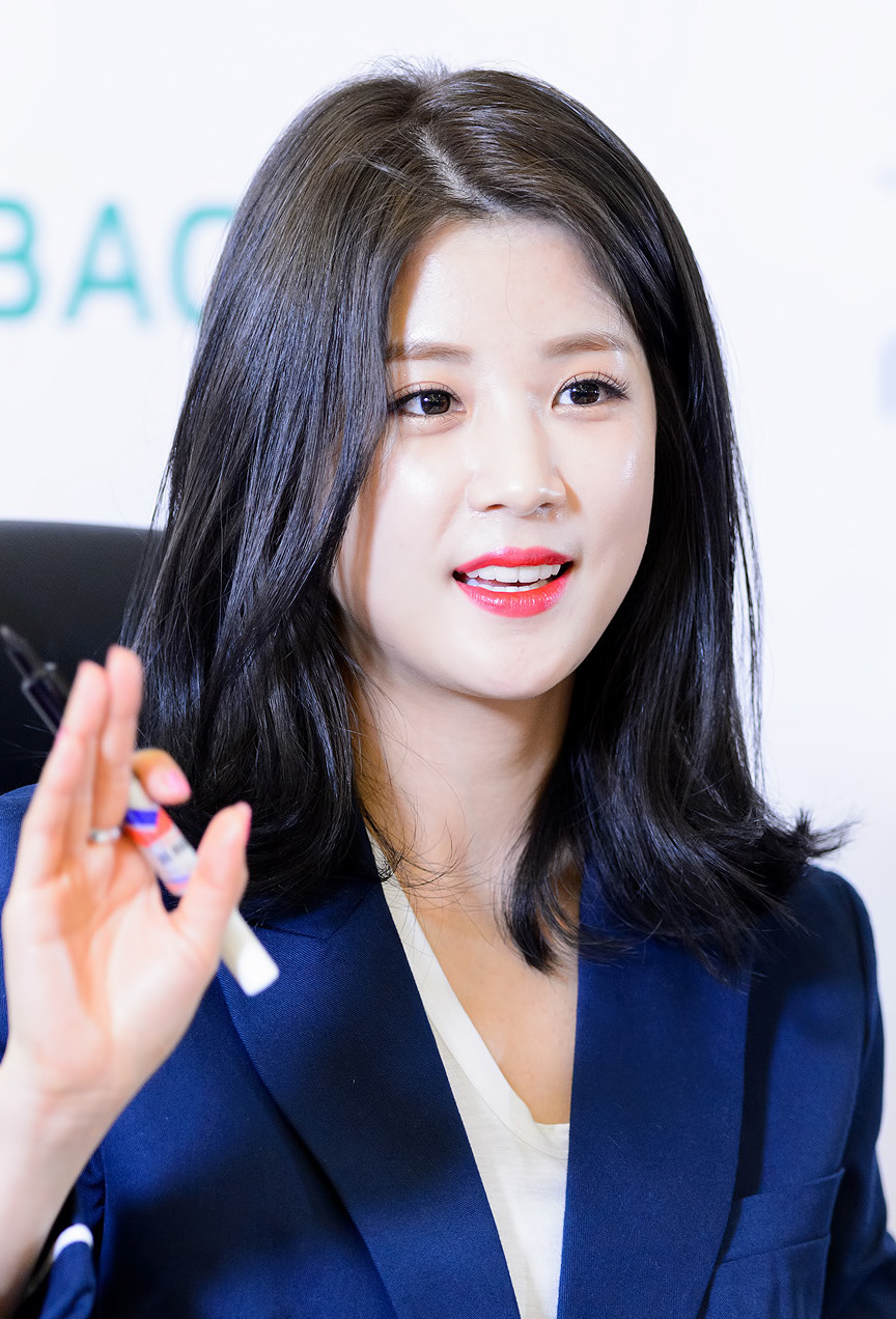 Park Cho-rong at Duoback fansigning event, 5 March 2016